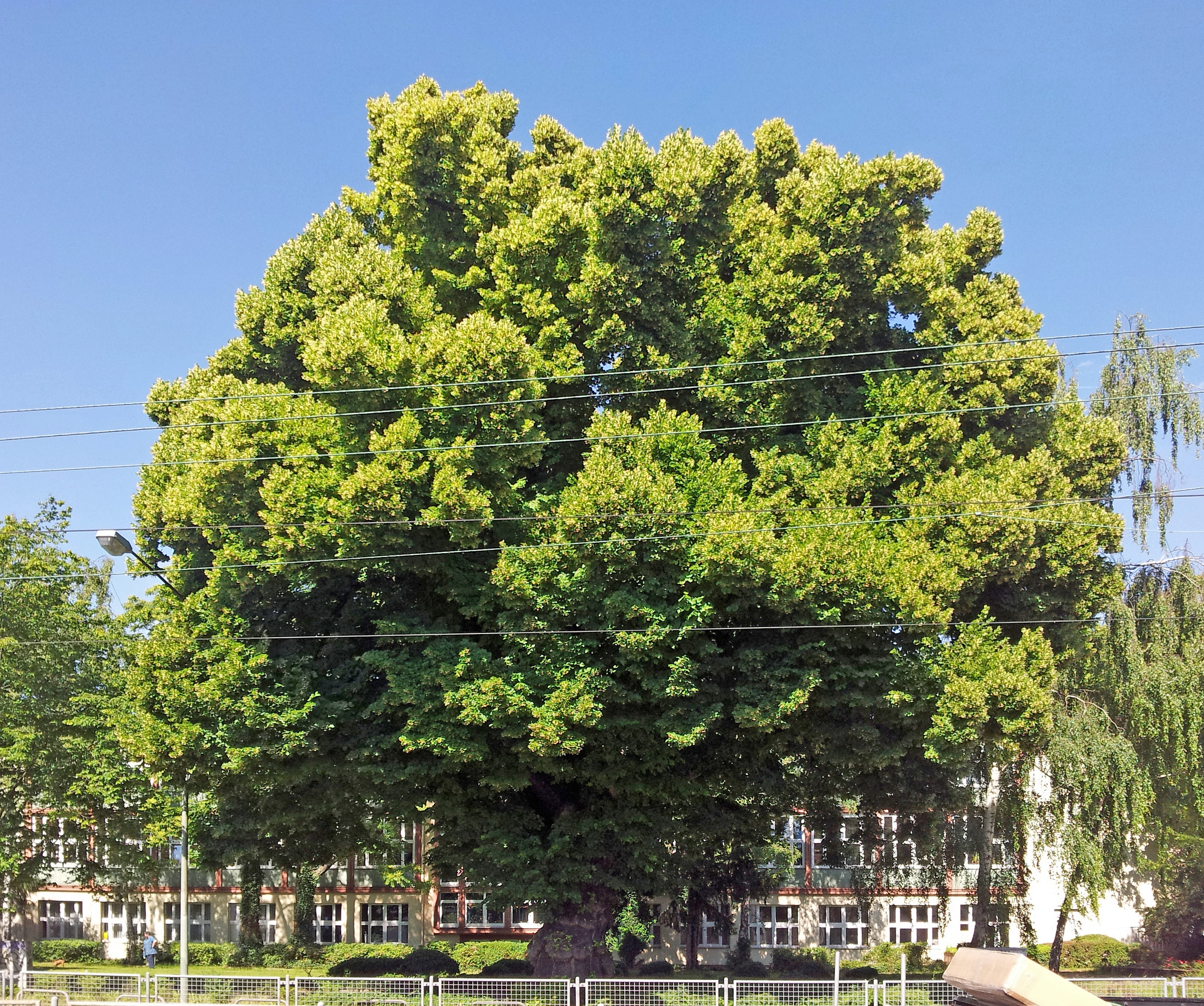 Frankfurt - U-Bahn-Station Am Lindenbaum, view from Eschersheimer Landstraße